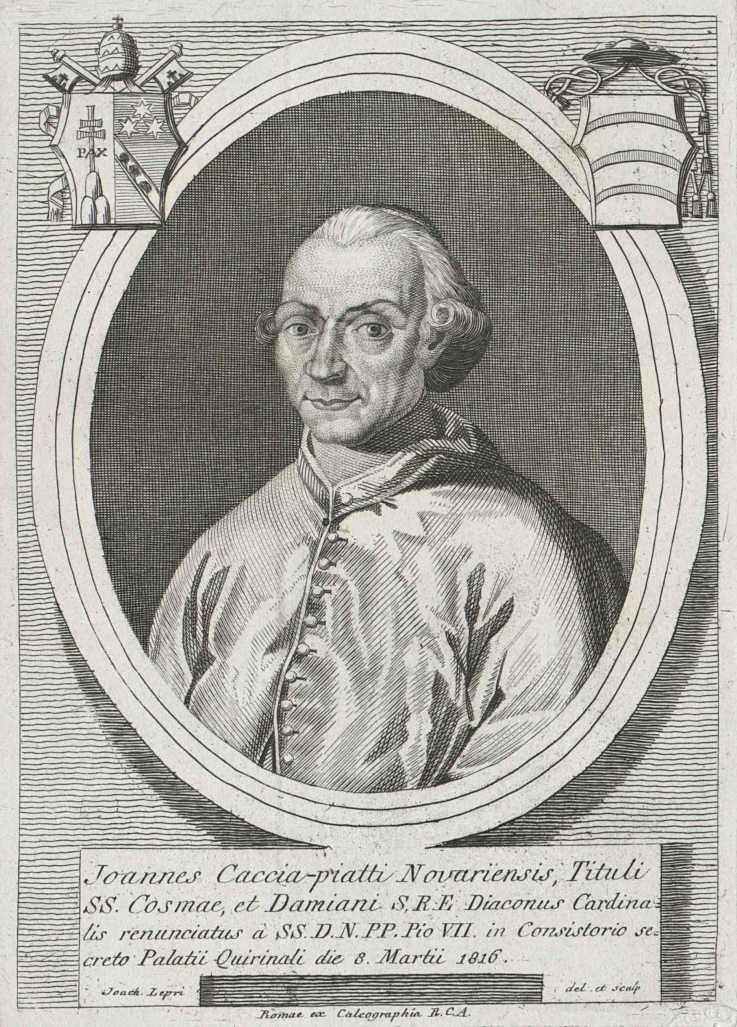 Cardinal Giovanni Caccia-Piatti (1751-1833)